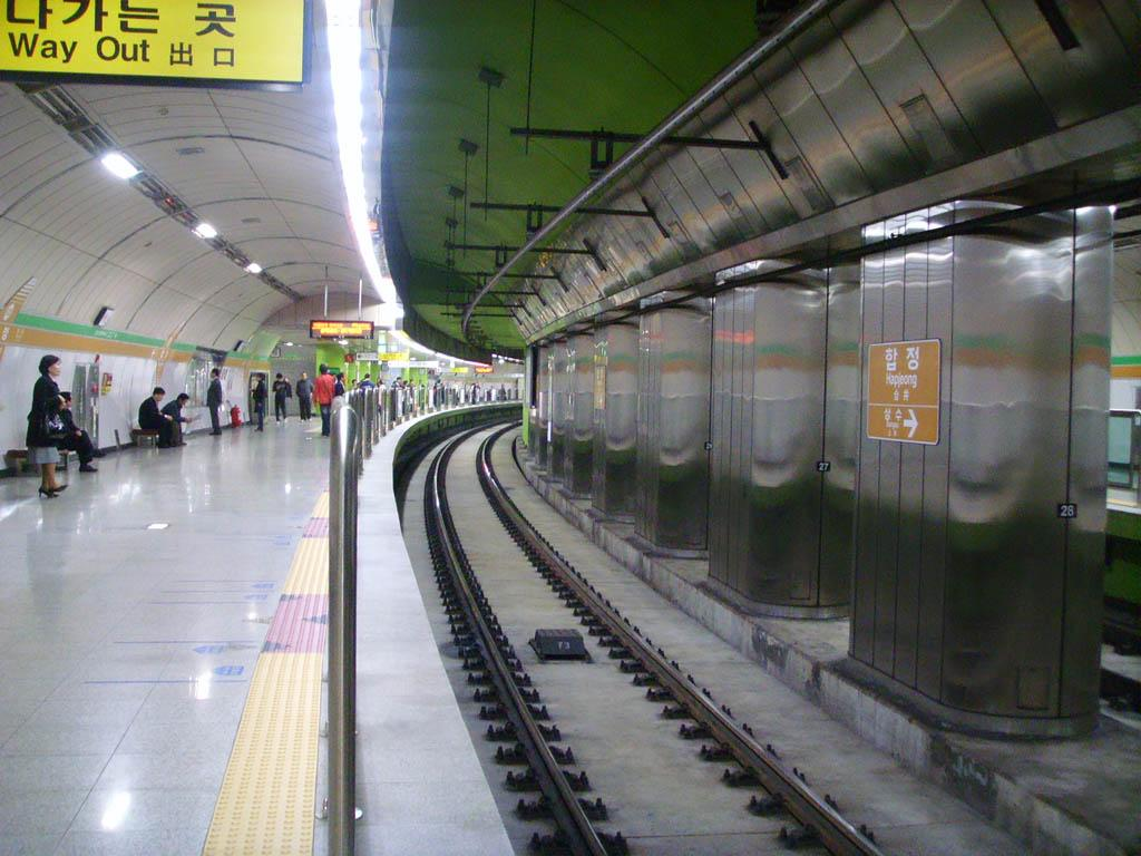 Hapjeong Station (Seoul Subway #6), Seoul, S. Korea